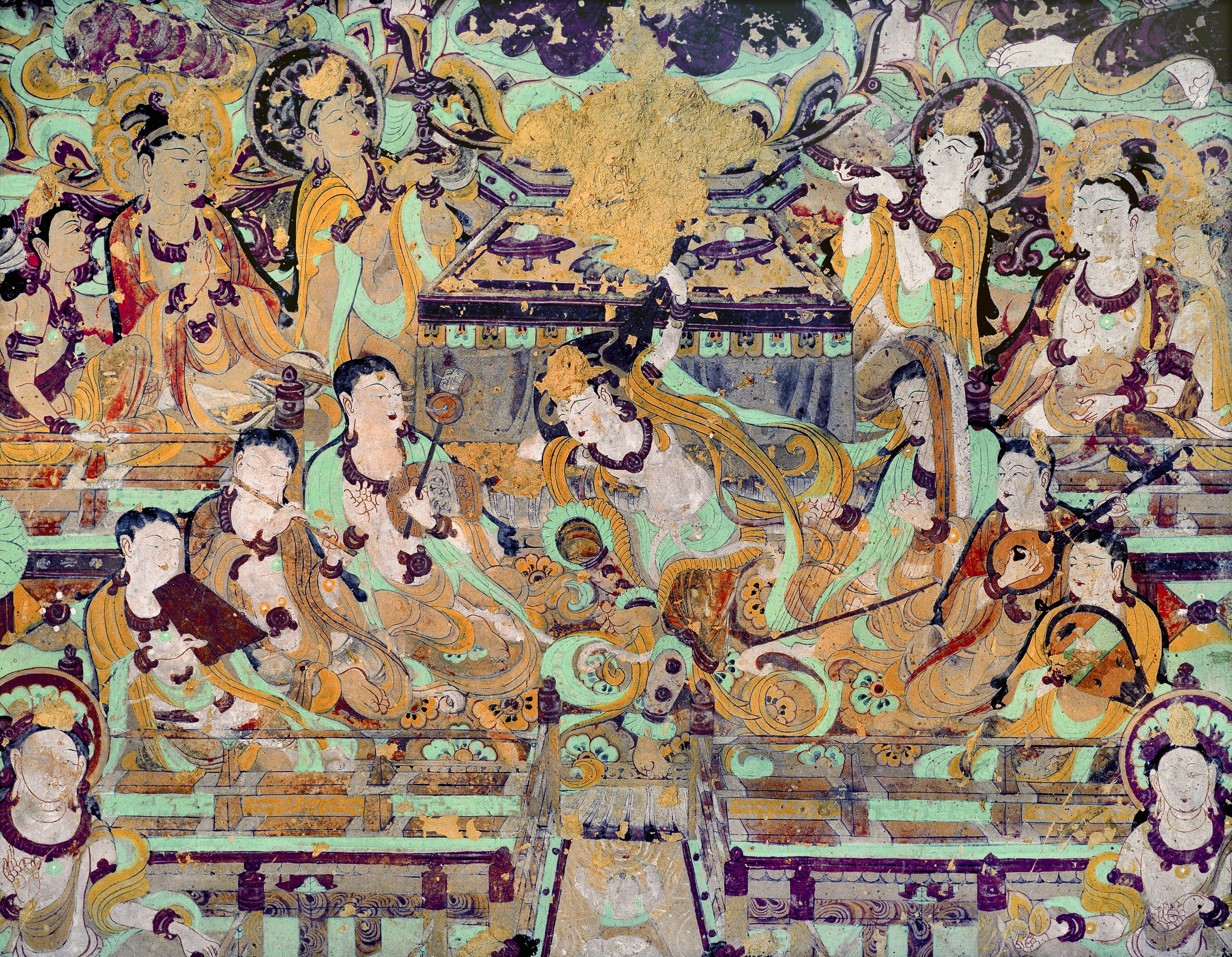 A dancer spins while the orchestra plays. There are three kinds of lutes in this image. The dancer has a large pipa. A smaller pipa is on the right side lower. Beside that instrument is a long-necked lute, possibly a sanxian (三弦). Mogao caves near Dunhuang―Grotto 46 Left interior wall, second panel. Also called cave 112.